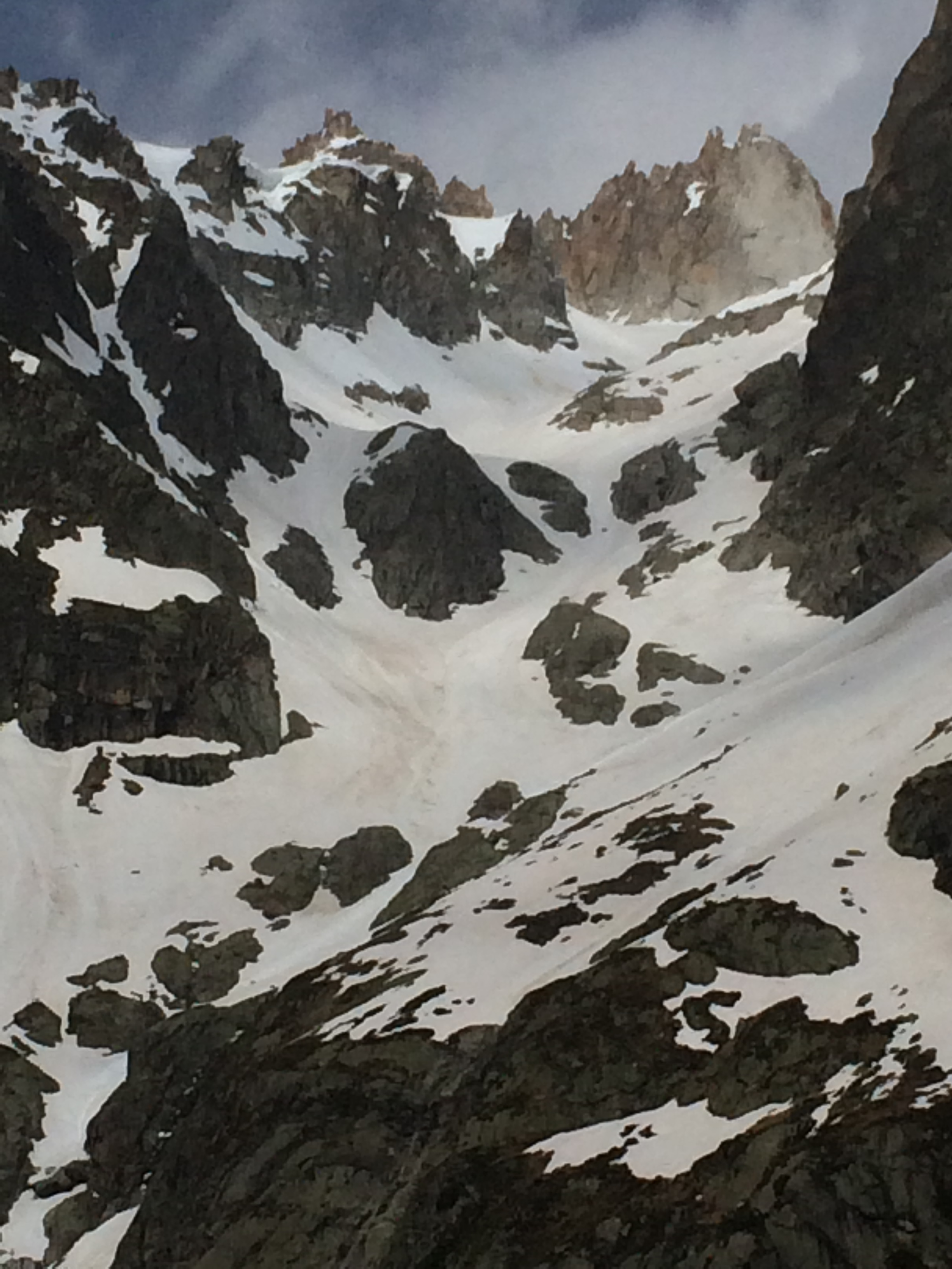 Pointe des plines au matin